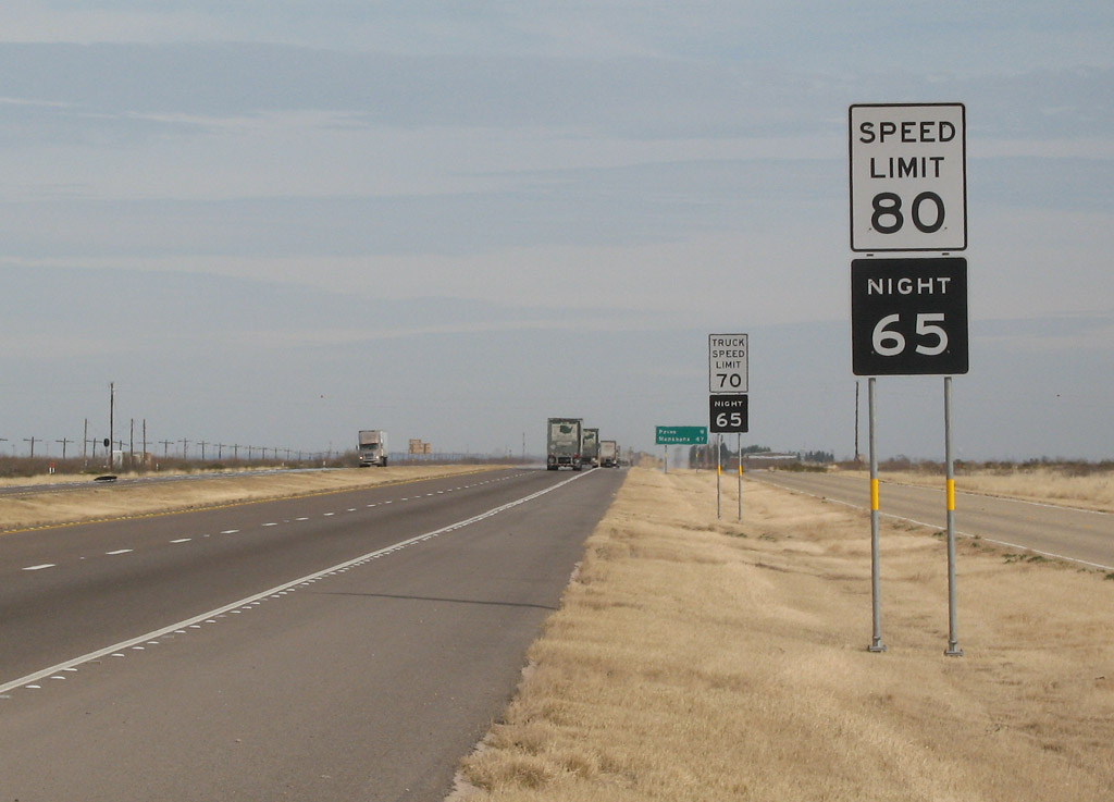 Per image owner: "On I-20 eastbound, 7 miles west of Pecos. (1/11/2007)"